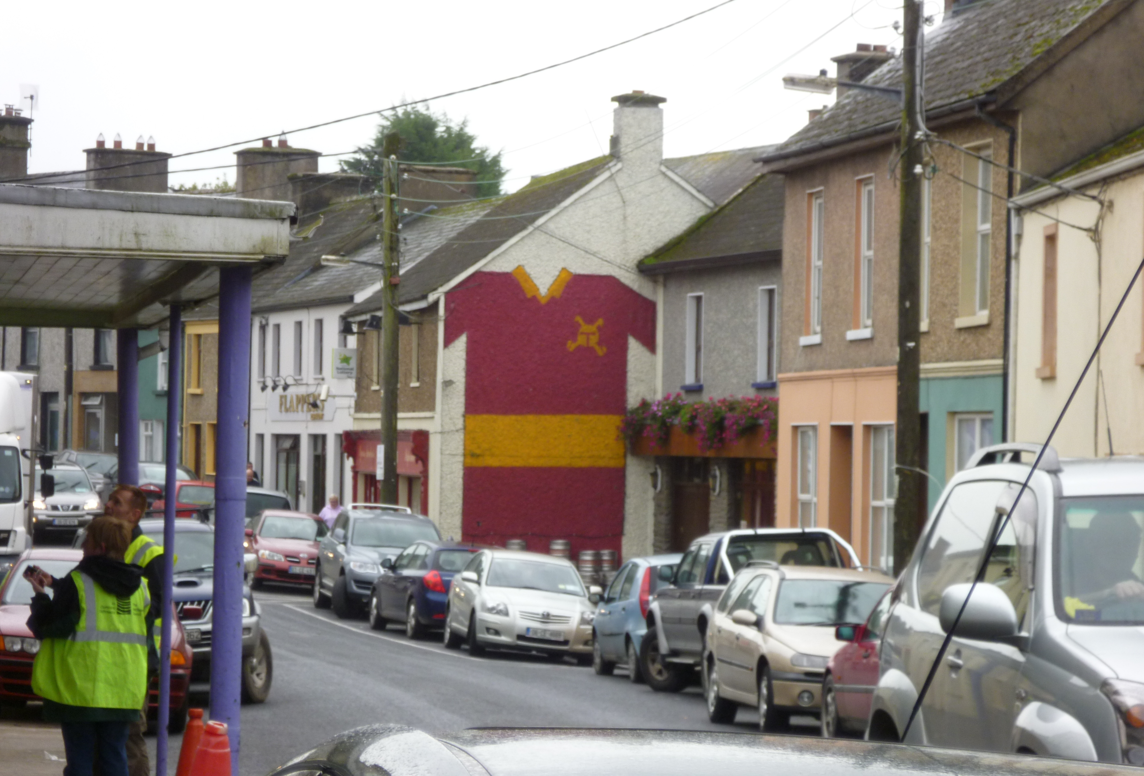 Gable mural of Hurling Shirt, Tulla, County Clare